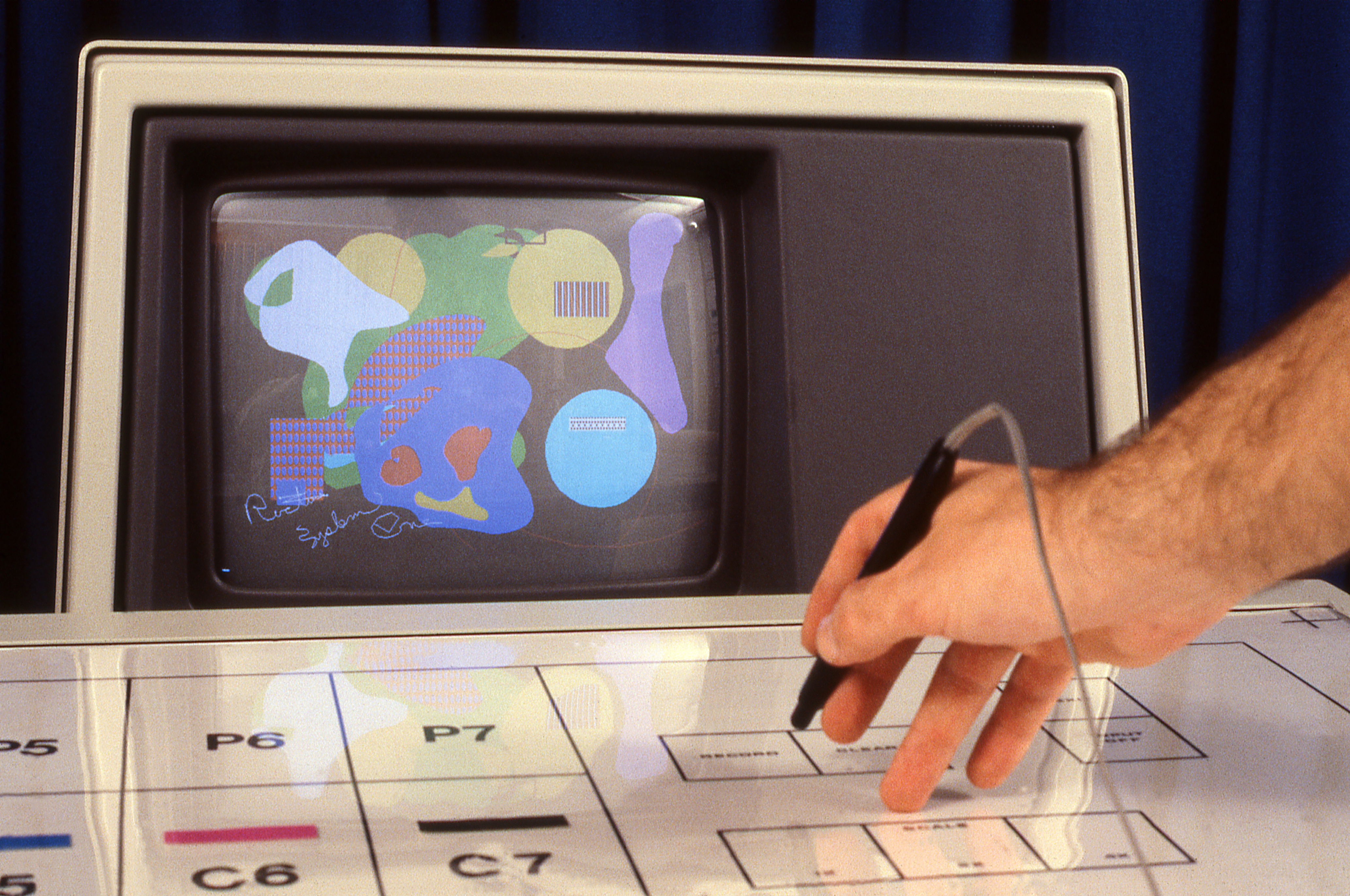 Digital Effects, "Video Palette I," 1979. This early digital paint and drawing system was built by the staff of Digital Effects including Judson Rosebush, Jeffrey Kleiser, David Cox, Don Leich, and Vance Loen using Tektronics hardware and software written by Digital Effects Inc. at its offices at 321 West 44th Street, New York. The "menu" of options, and all drawing occur on the tablet; the image is displayed in color on the screen.